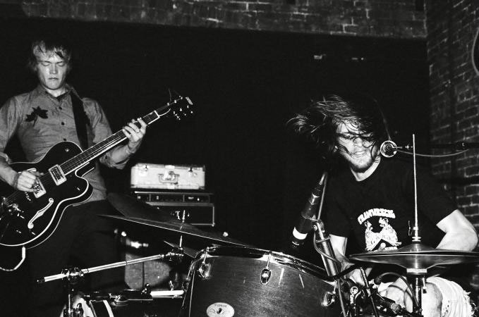 The Two Gallants -- Drummer Tyson Vogel and guitarist Adam Stephenson -- at Emos in Austin, Texas on April 29, 2005.